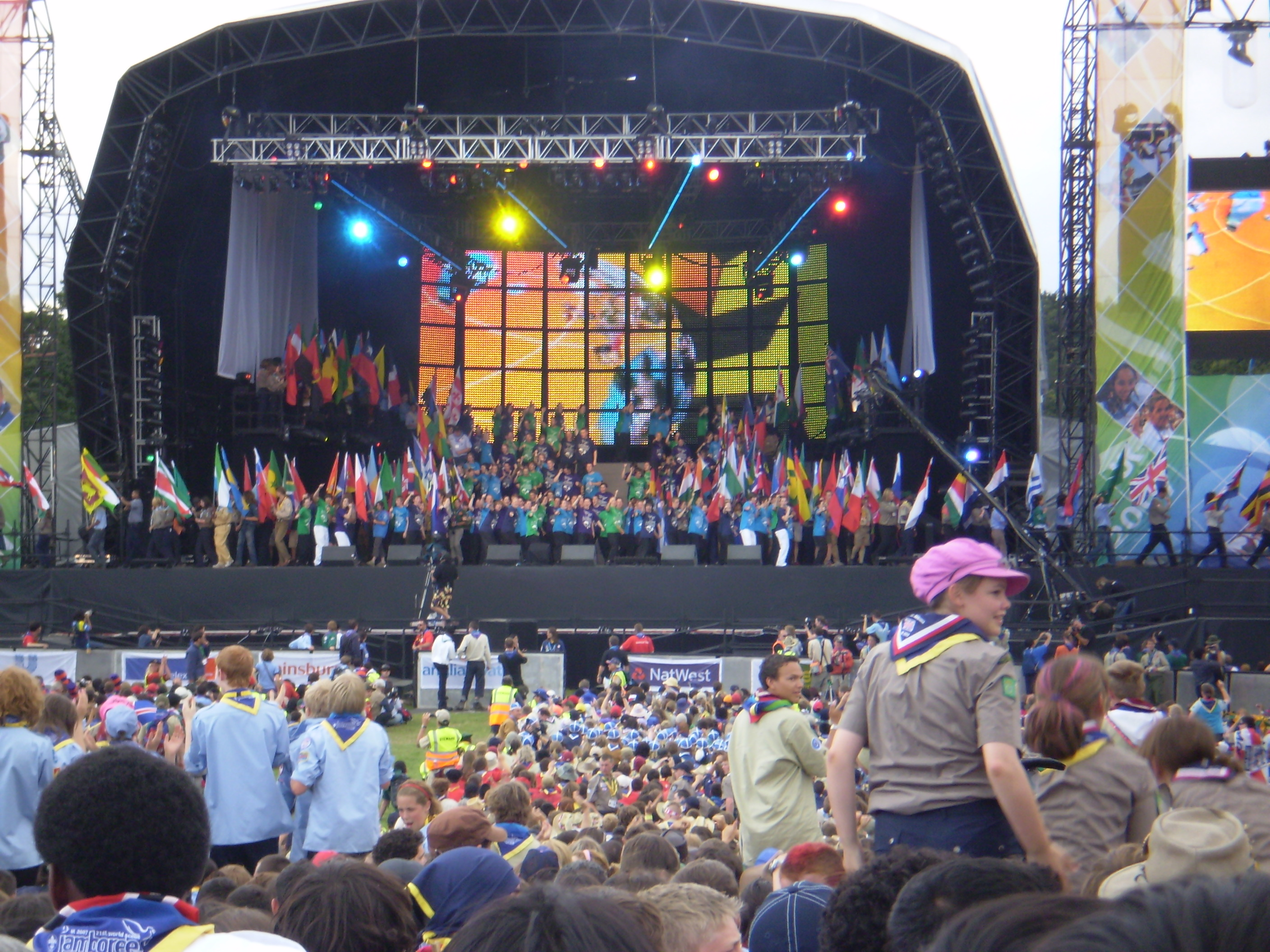 A moment of the opening ceremony of the 21st World Scout Jamboree